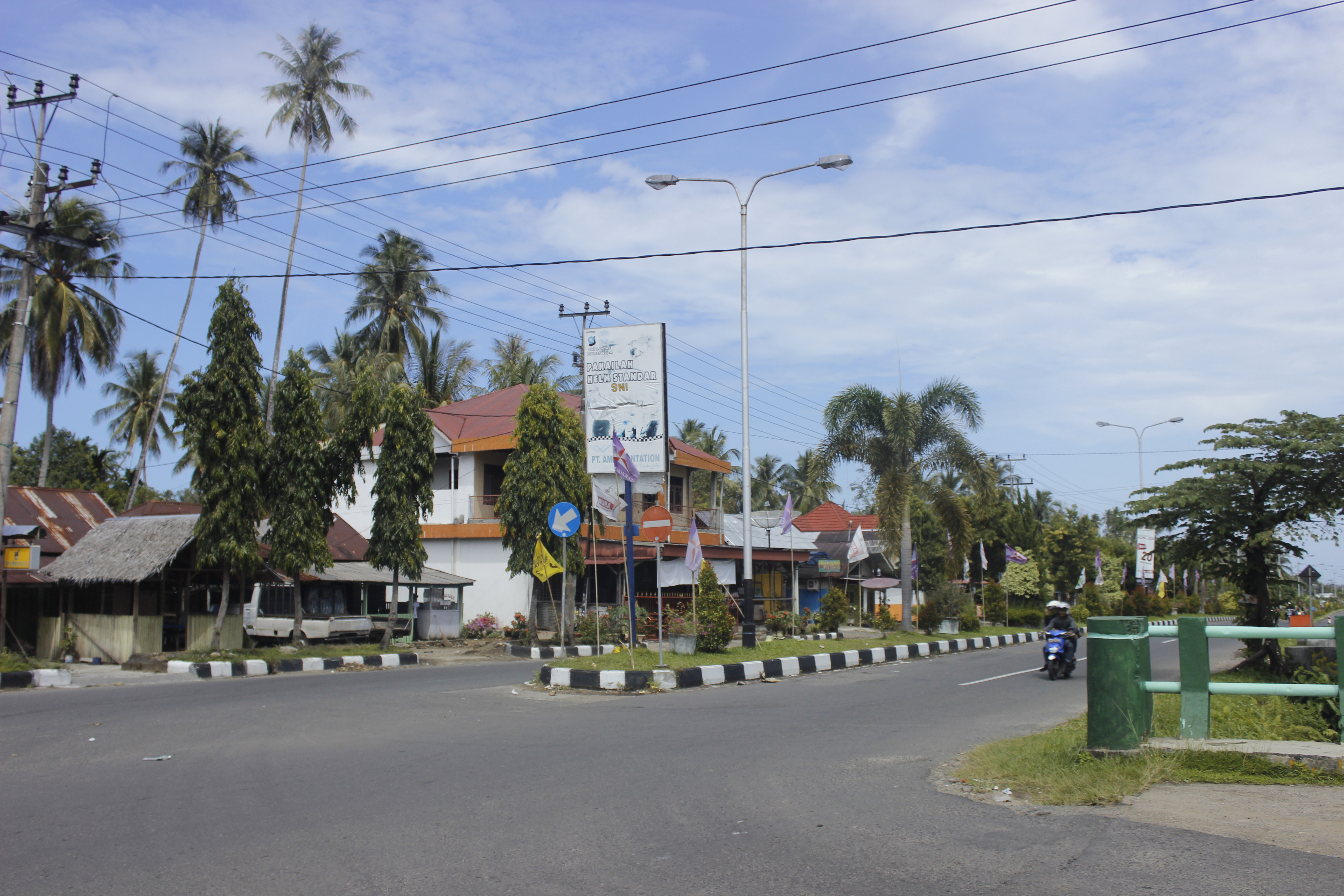 A road intersection in Lubuk Basung, the capital of Agam regency, West Sumatra.